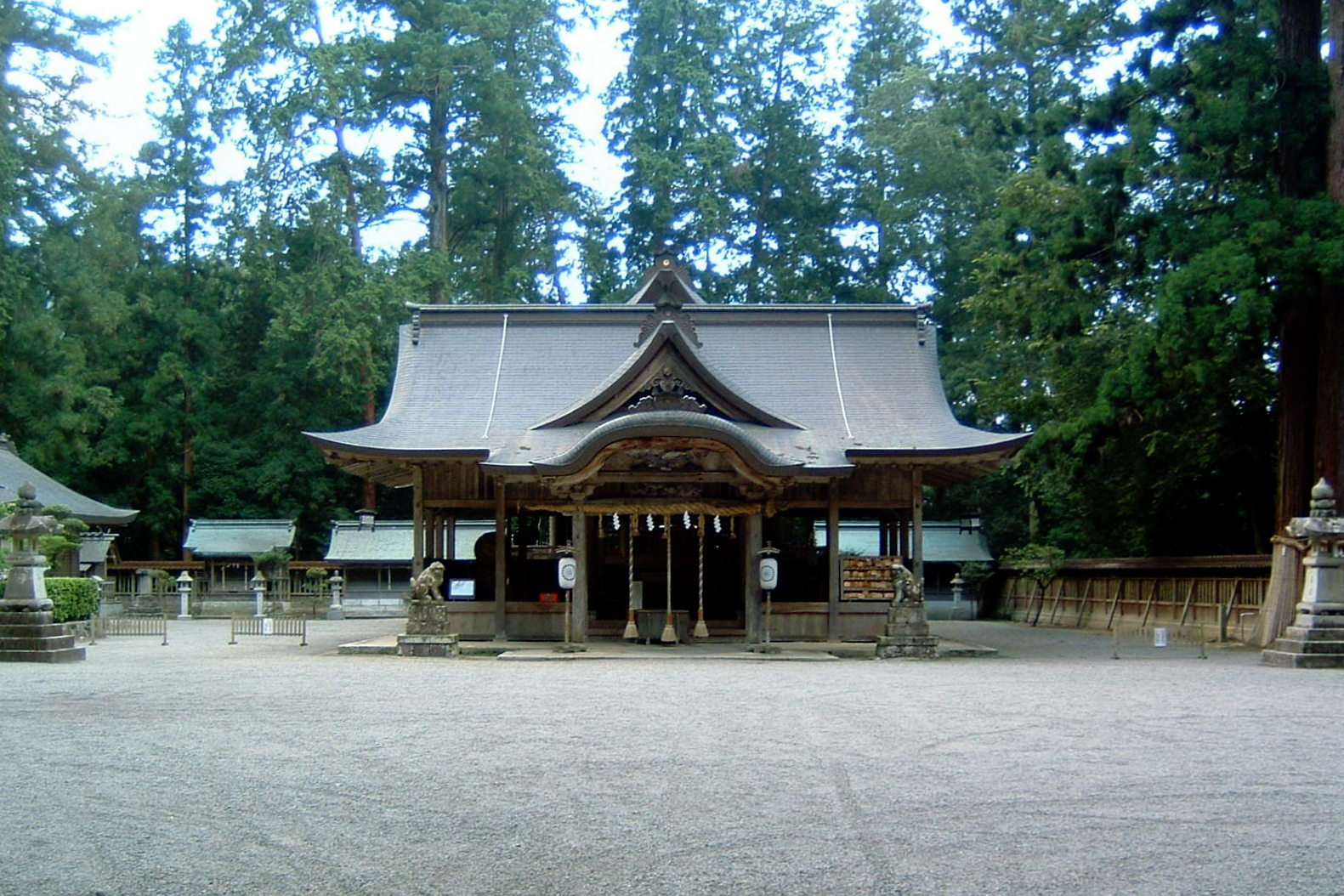 Iwa jinja, Shiso, Hyogo prefecture, Japan